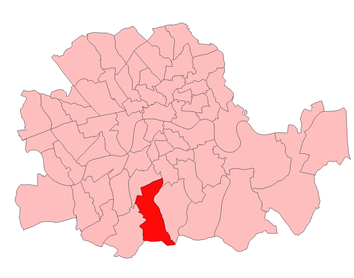 A map of Norwood constituency within the London County Council area, as it existed from 1918 to 1949.